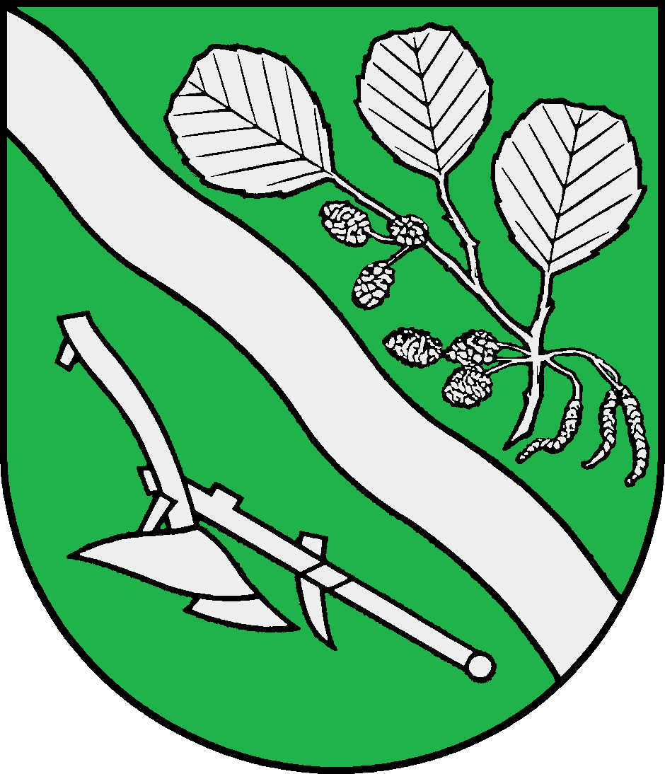 Coat of arms of the municipality Ellerhoop in Schleswig-Holstein, Germany.